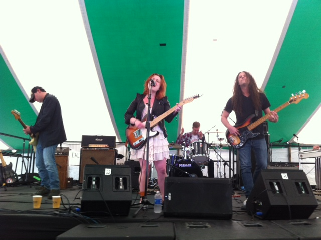 This photo was taken at the band's last show for SXSW 2014 at Dog & Duck Pub in Austin, Texas.